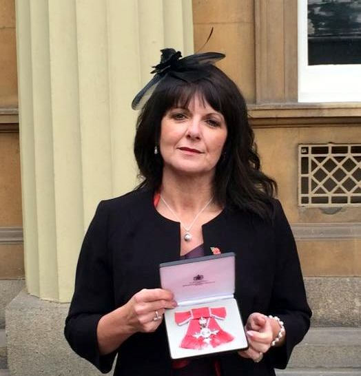 Jayne Senior at Buckingham Palace after receiving her MBE